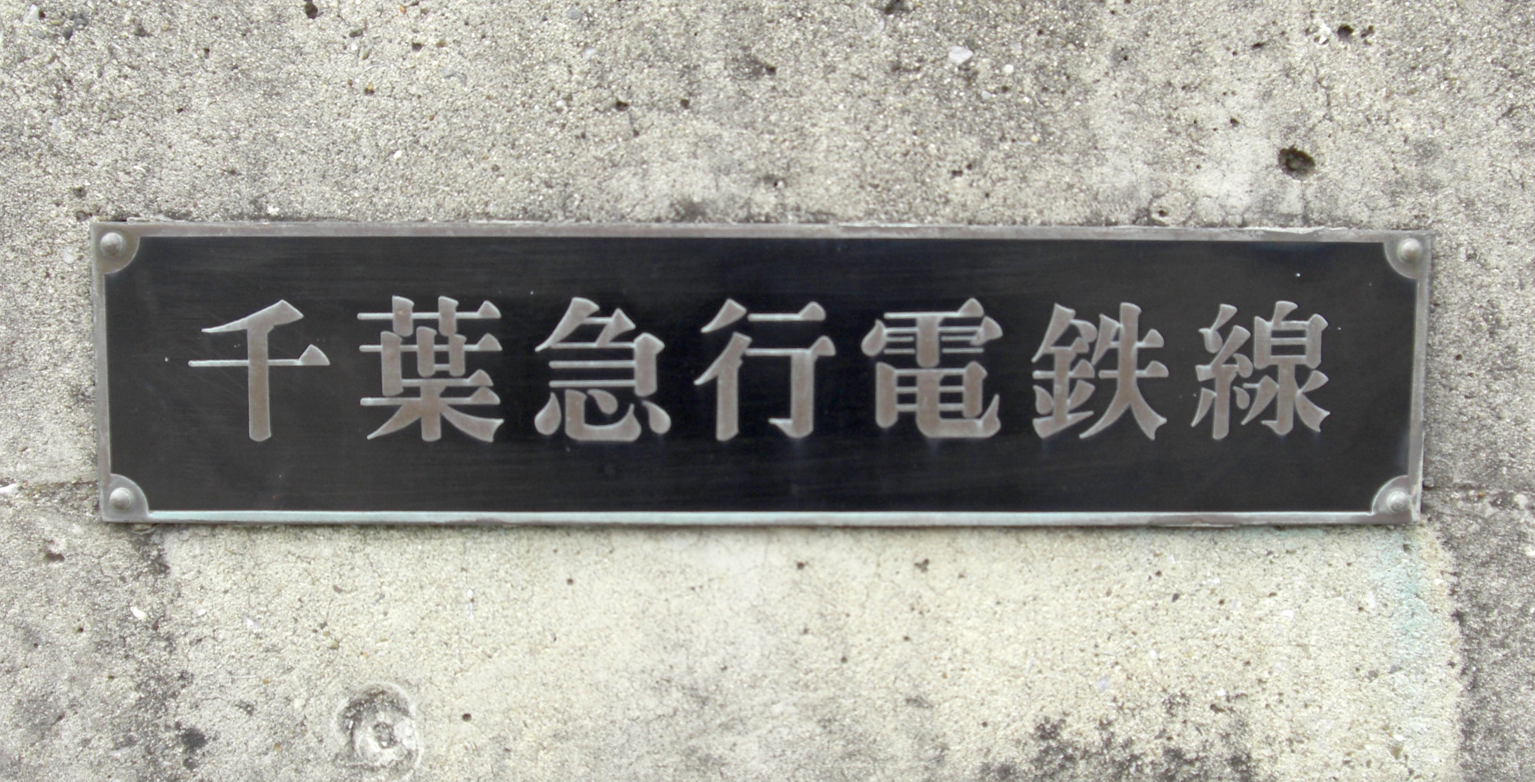 Plate of Chiba Kyūkō Electric Railway